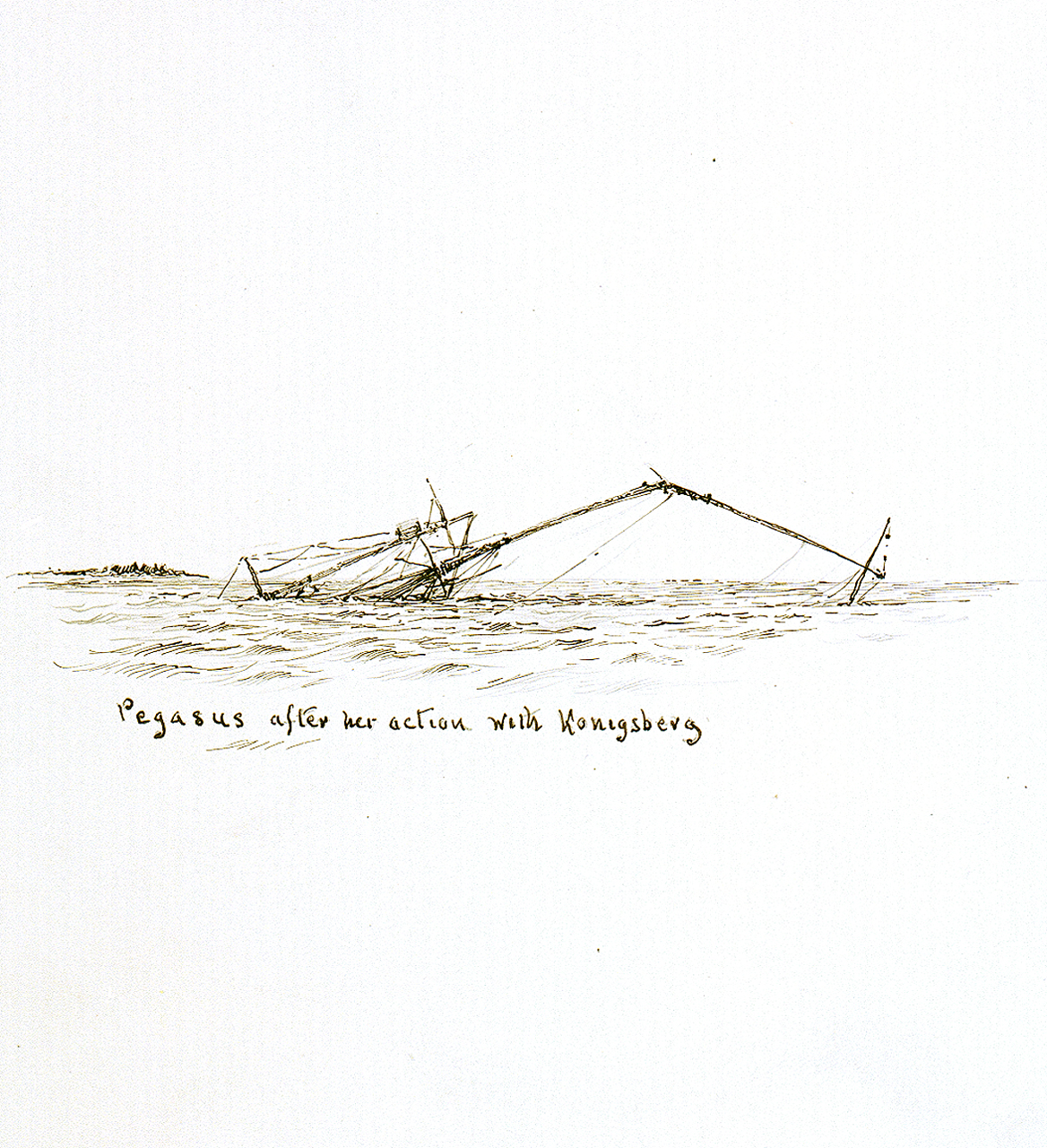 'Pegasus after her action with Konigsberg' Inscribed by the artist, as title. Early on the morning of 20 September 1914, the 3rd-class protected cruiser, HMS 'Pegasus' (1897) was at anchor in Zanzibar harbour, Kenya, undergoing repairs to her engines and boilers, when she was surprised by the German light cruiser 'Königsberg' (1905). She was outranged and outgunned by the German ship and in under ten minutes was completely disabled. Her colours were struck to enable her surviving crew members to get ashore and the severely damaged ship capsized and sank later that morning. All that remained visible were her masts, which is what is shown here with a patch of land beyond. It was not until 1955 that the wreck was sold for breaking up as scrap metal.